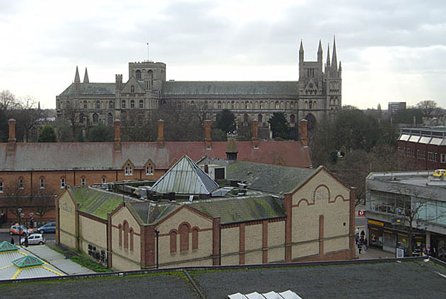 View from the Market Car Park Looking South. In the foreground the former County Courts. The squat central tower of the Cathedral makes the norman nave look particularly imposing.